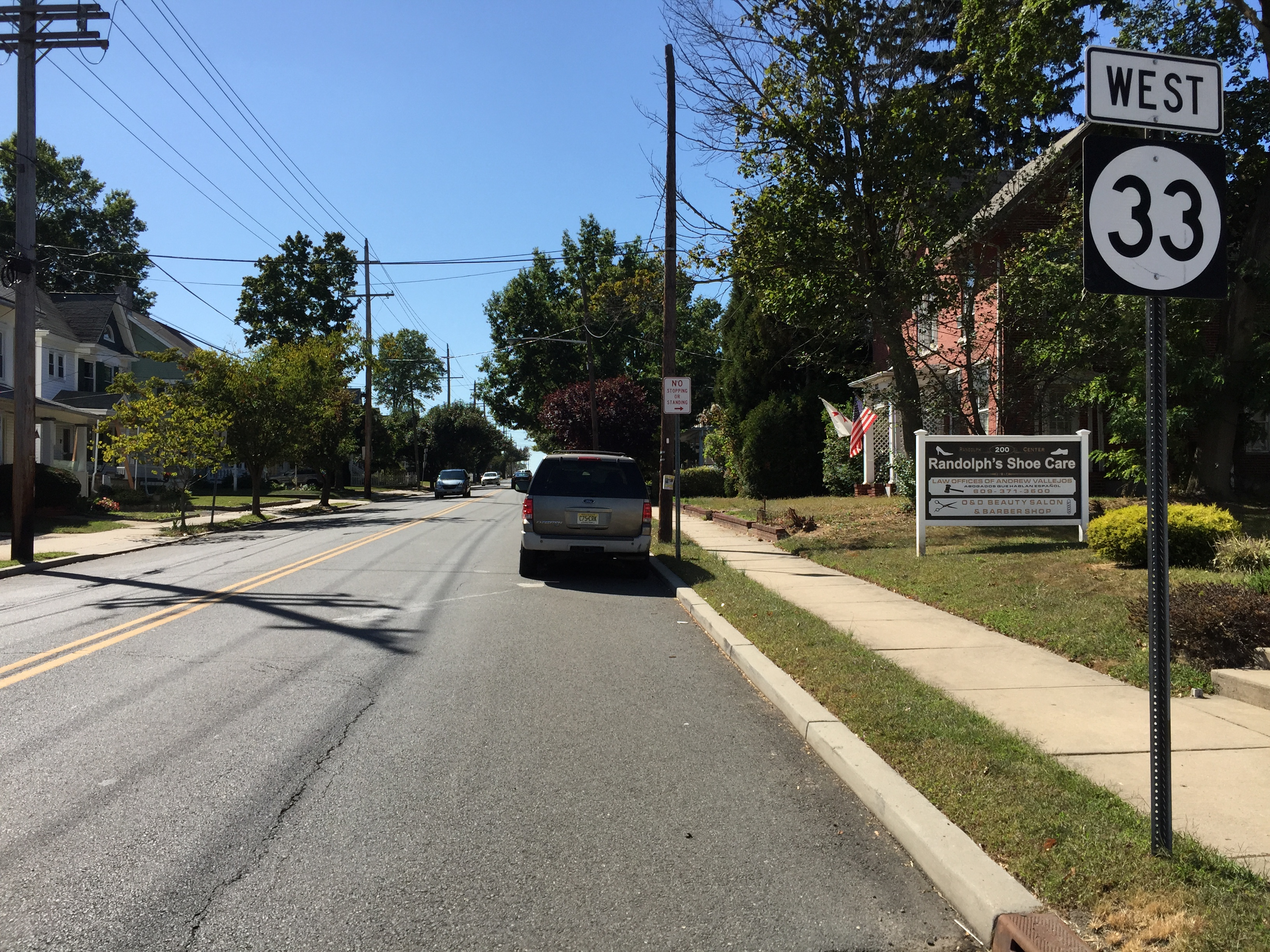 View west along New Jersey State Route 33 (Mercer Street) at Academy Street in Hightstown Borough, Mercer County, New Jersey